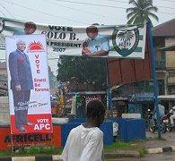 A man passes, in Freetown, posters for opposition candidate Ernest Bai Koroma (foreground) and the ruling SLPP ahead of presidential elections, 06 Aug 2007. Koroma was later elected President of Sierra Leone